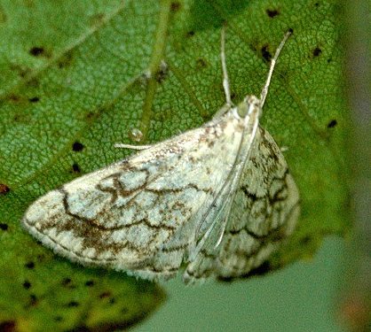 Picture taken in Commanster, Belgian High Ardennes . Species: Evergestis pallidata